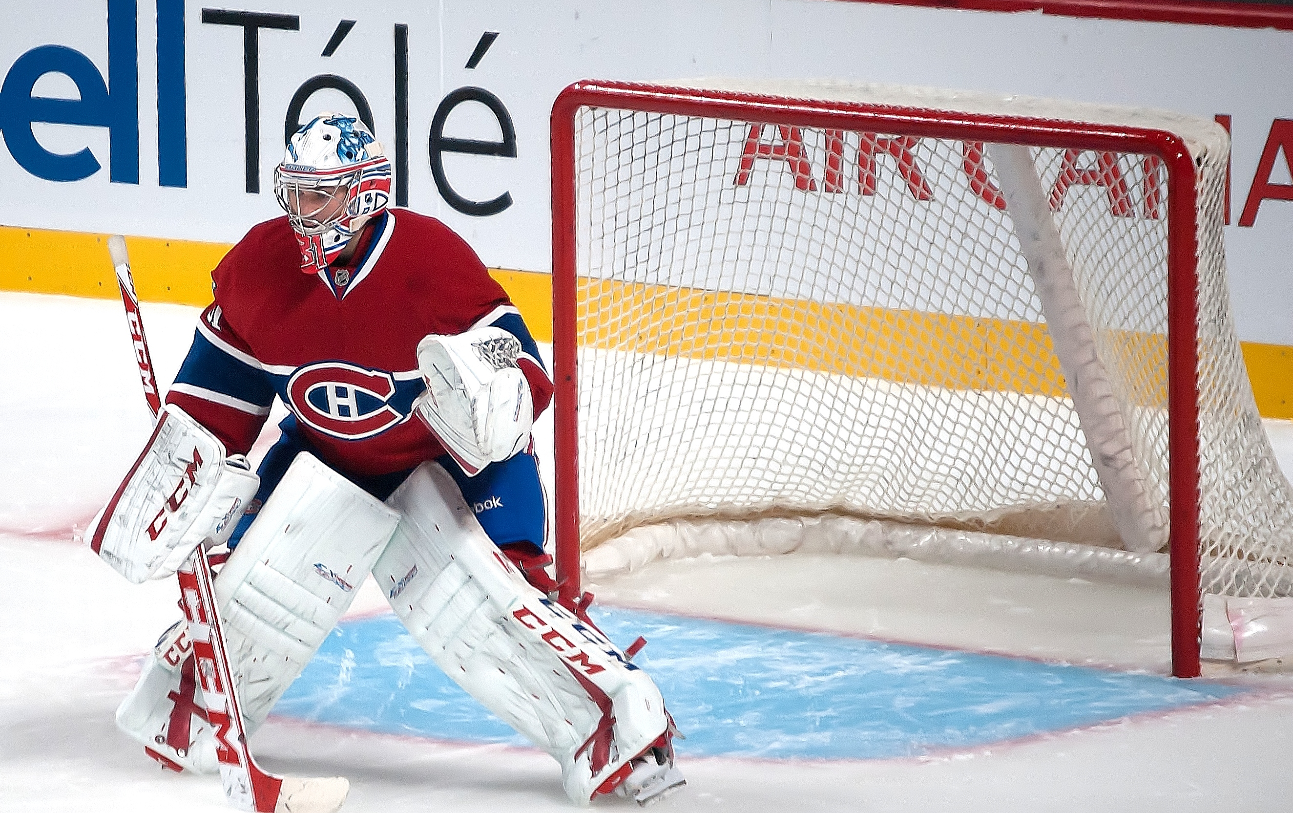 Montreal Canadiens goaltender Carey Price during a practice with his team.